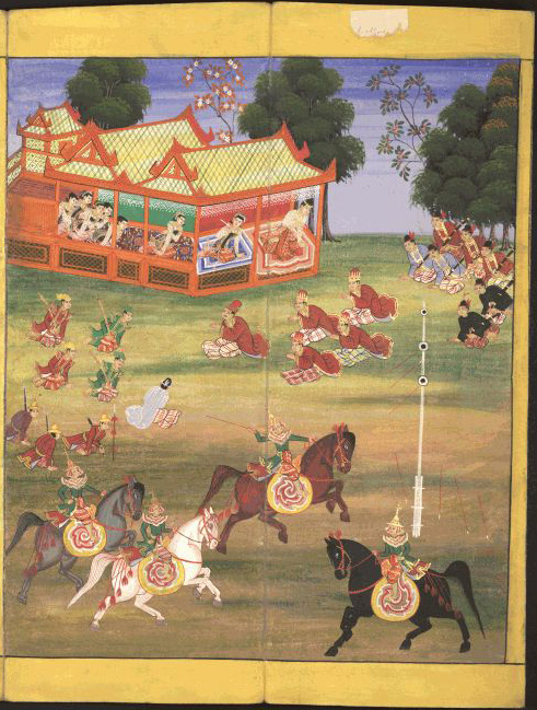 The king and queen watch a ceremony. From a 18th century Burmese watercolour parabeik (picture book) showing royal pasttimes. Shelfmark: MS. Burm. a. 6